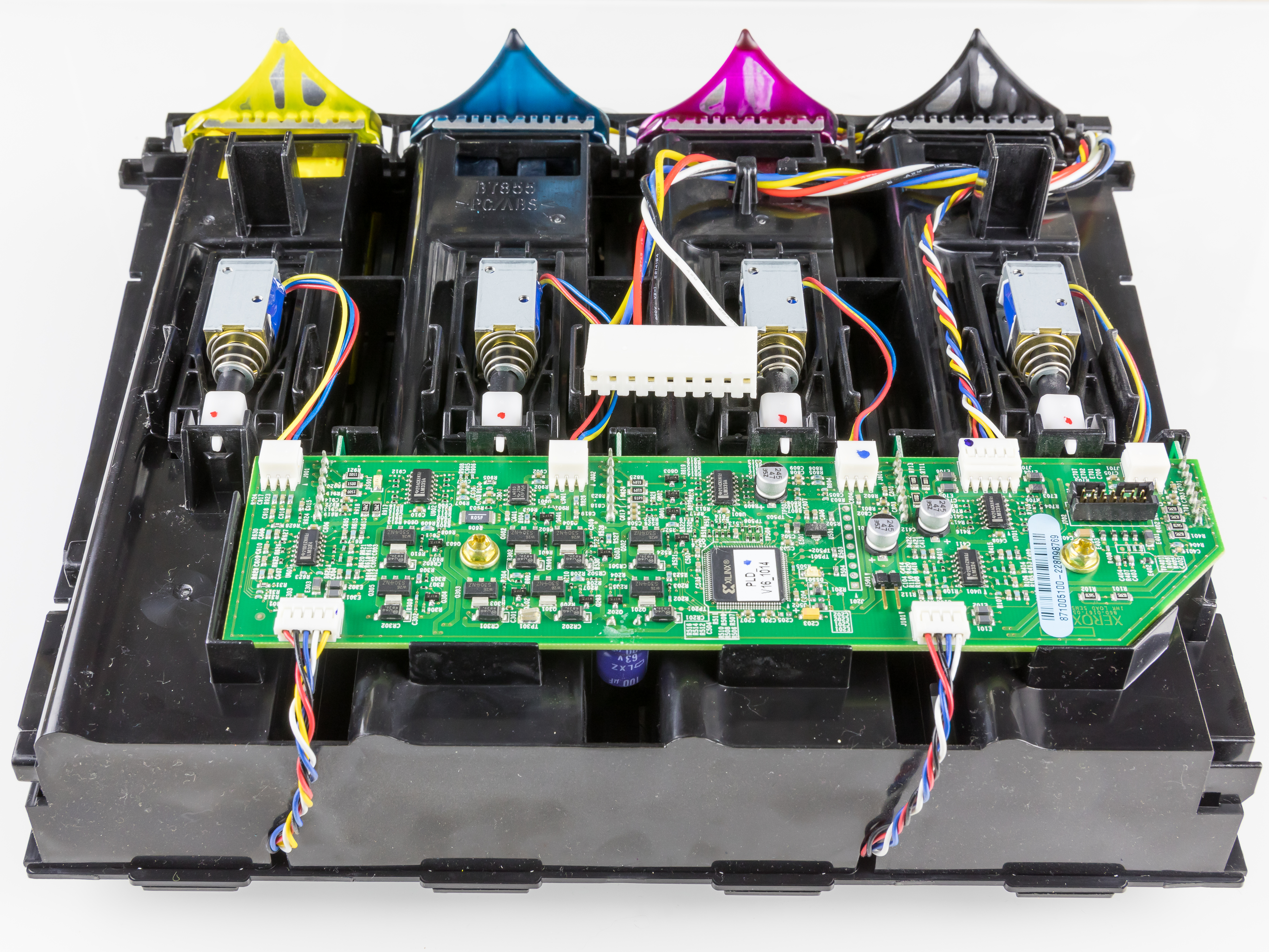 Xerox ColorQube 8570 - color unit